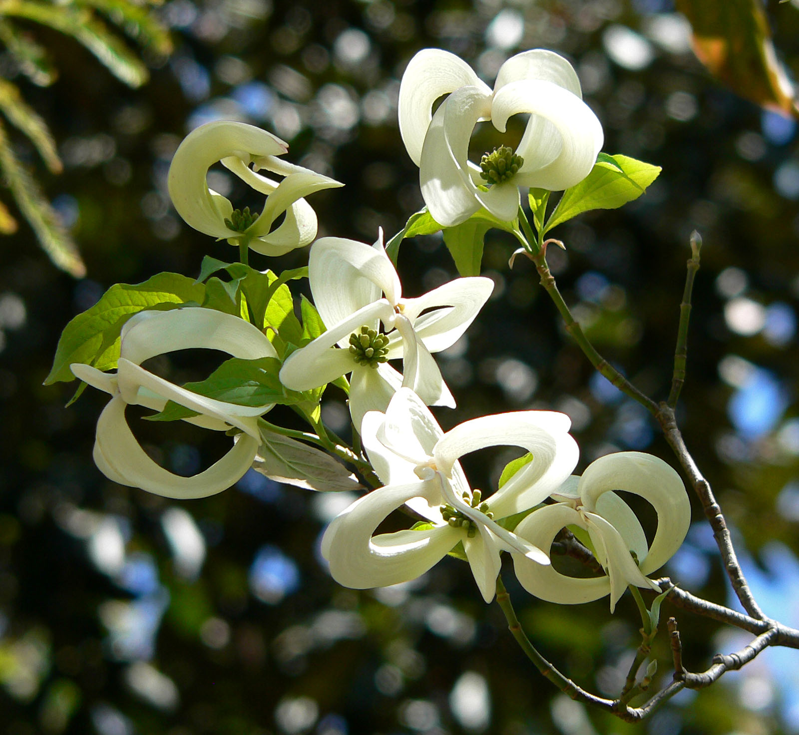 Cornus florida subsp. urbiniana (flowering dogwood) at the University of California Botanical Garden, Berkeley, California